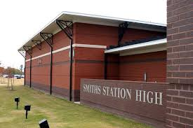 Photo of the School